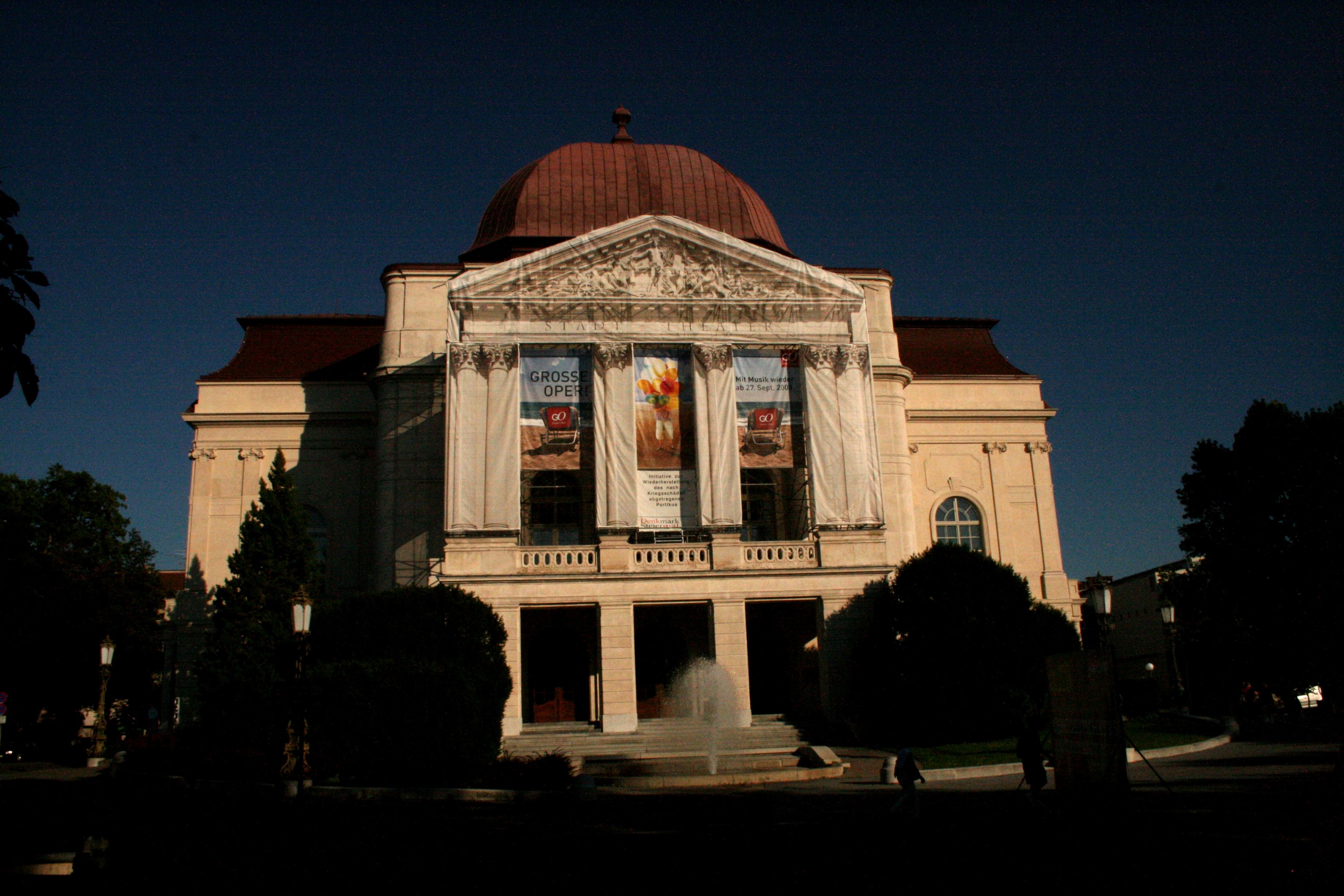 Opera house in Graz, Styria, Austria, Europe